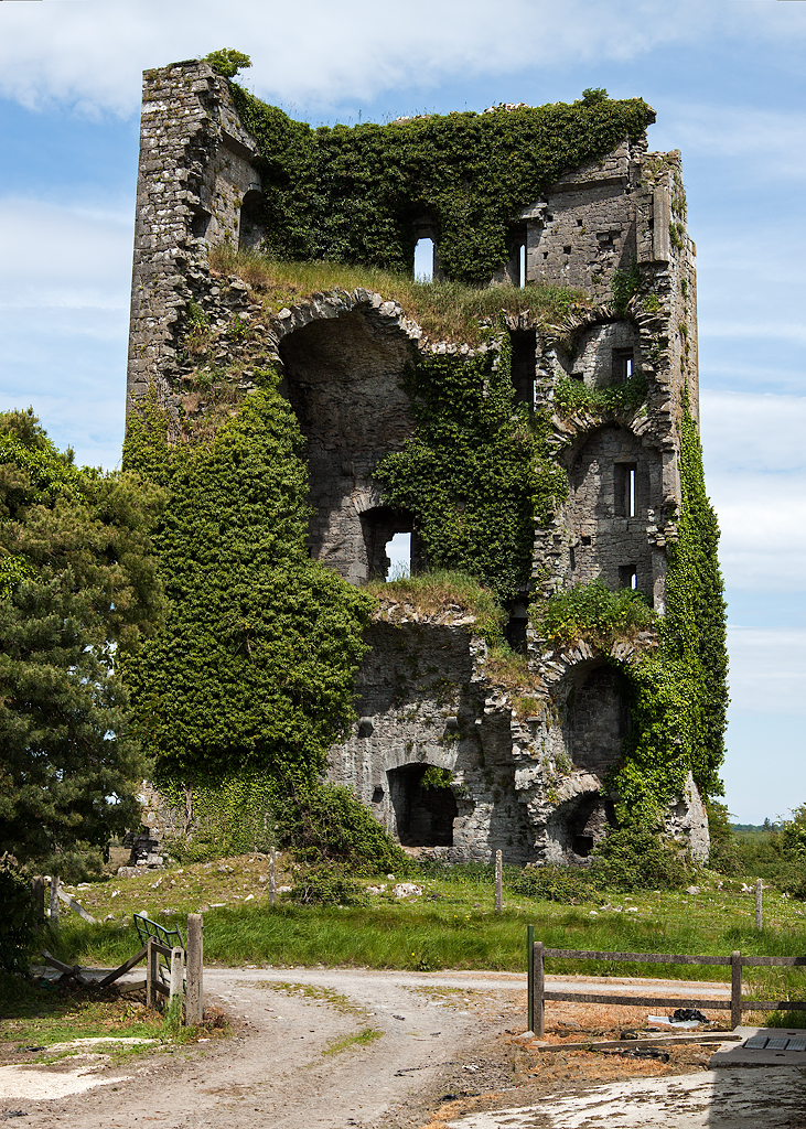 Ballymarkahan Castle: An image of The loss of the SE corner has exposed the interior showing the vaults over the second and fourth storeys.